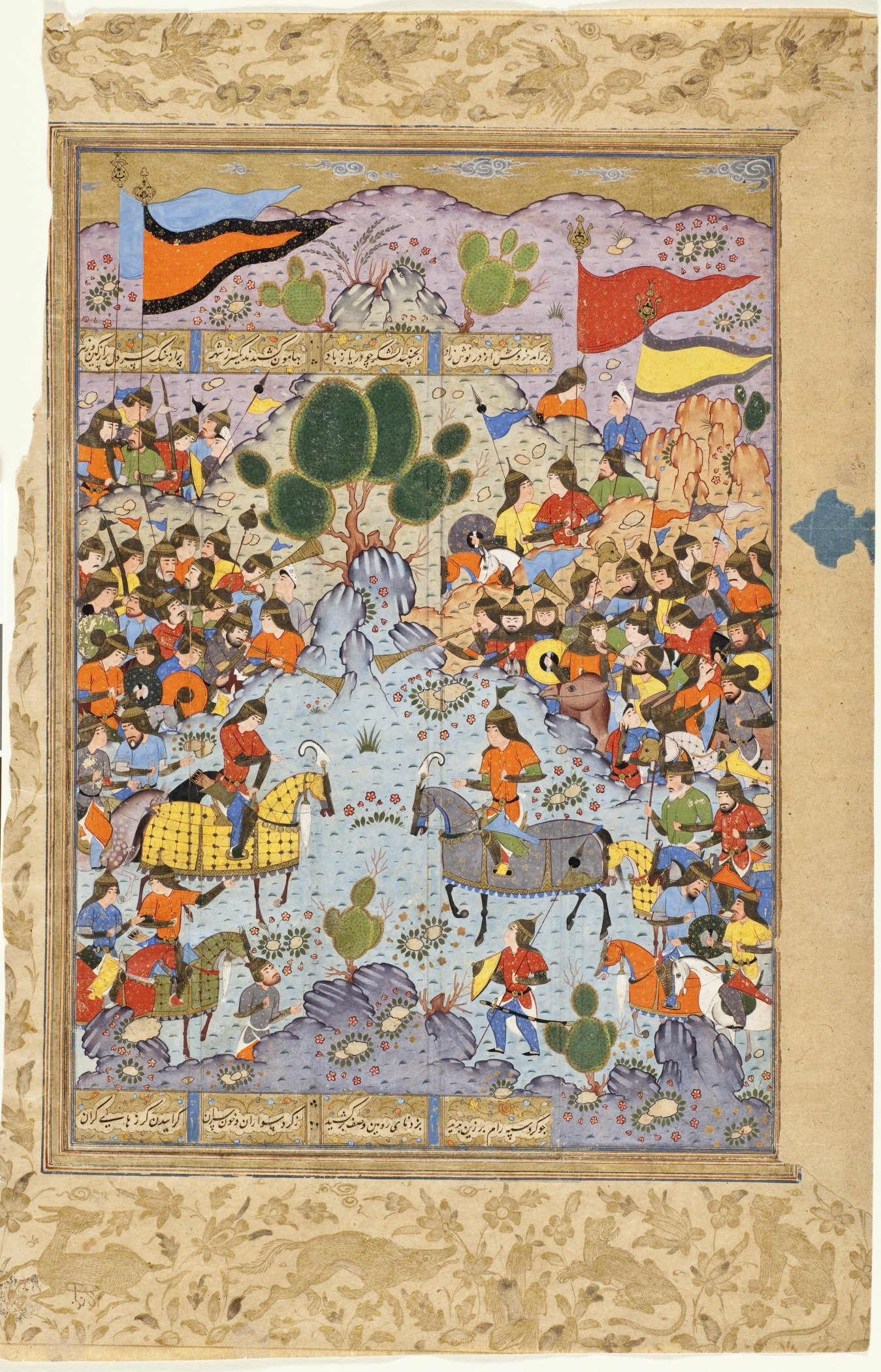 Iran, Shiraz, circa 1560 Book: Shahnama (Book of Kings) of Firdawsi Manuscripts Opaque watercolor heightened with gold and silver on paper Purchased with funds provided by Camilla Chandler Frost and Karl H. Loring with additional funds provided by the Art Museum Council through the 2009 Collectors Committee (M.2009.44.2) Islamic Art